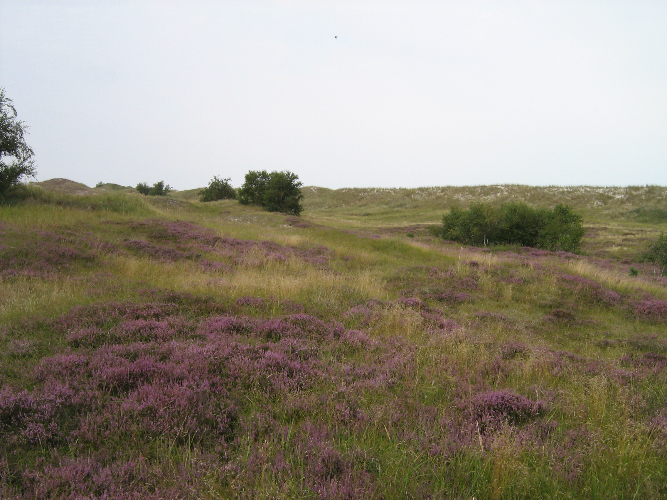 The Meadows "Sundischen Wiesen" on Zingst